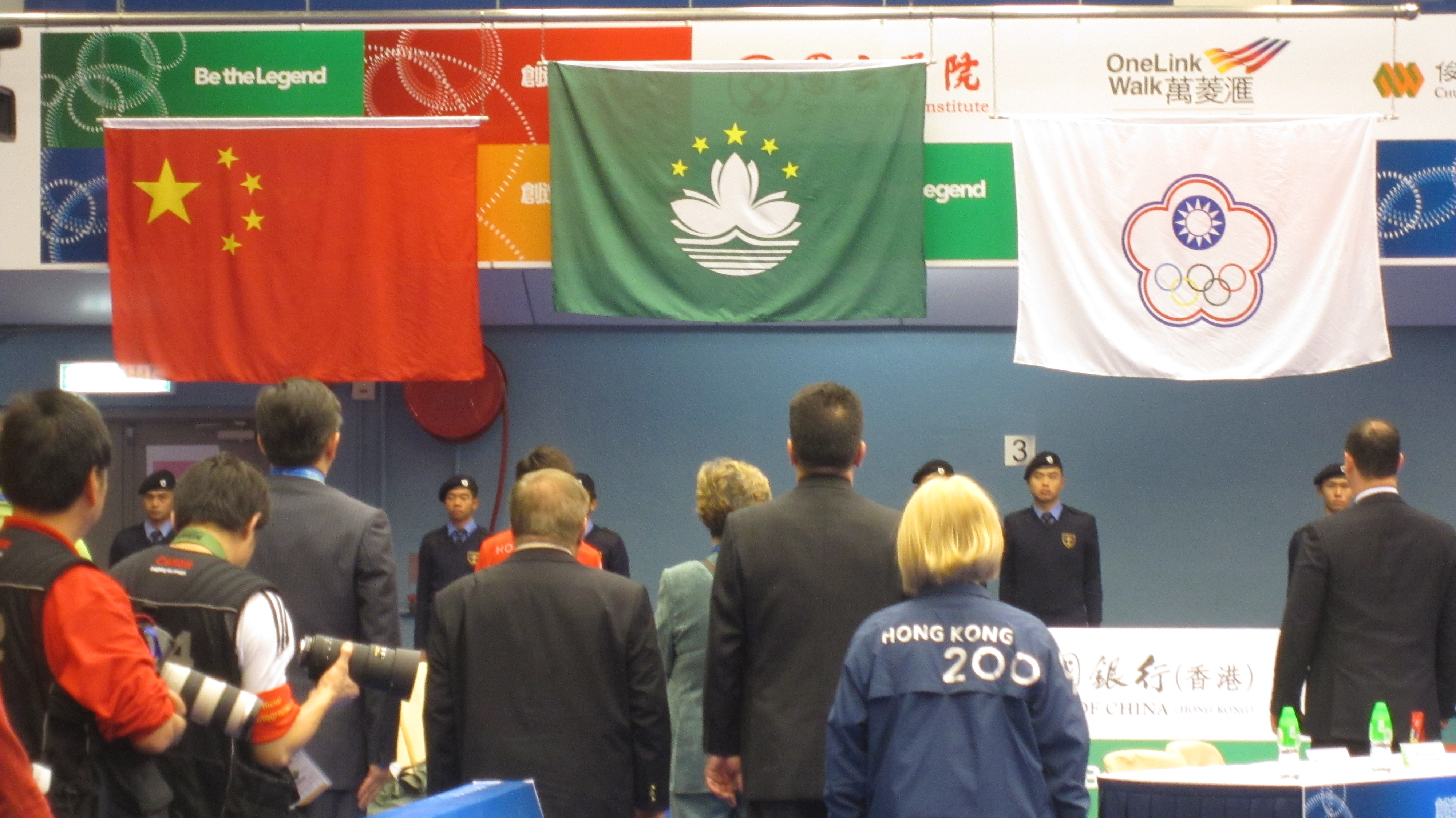 Flag of Macau, China and Chinese Taipei in a Victory Ceremony of Hong Kong East Asian Games